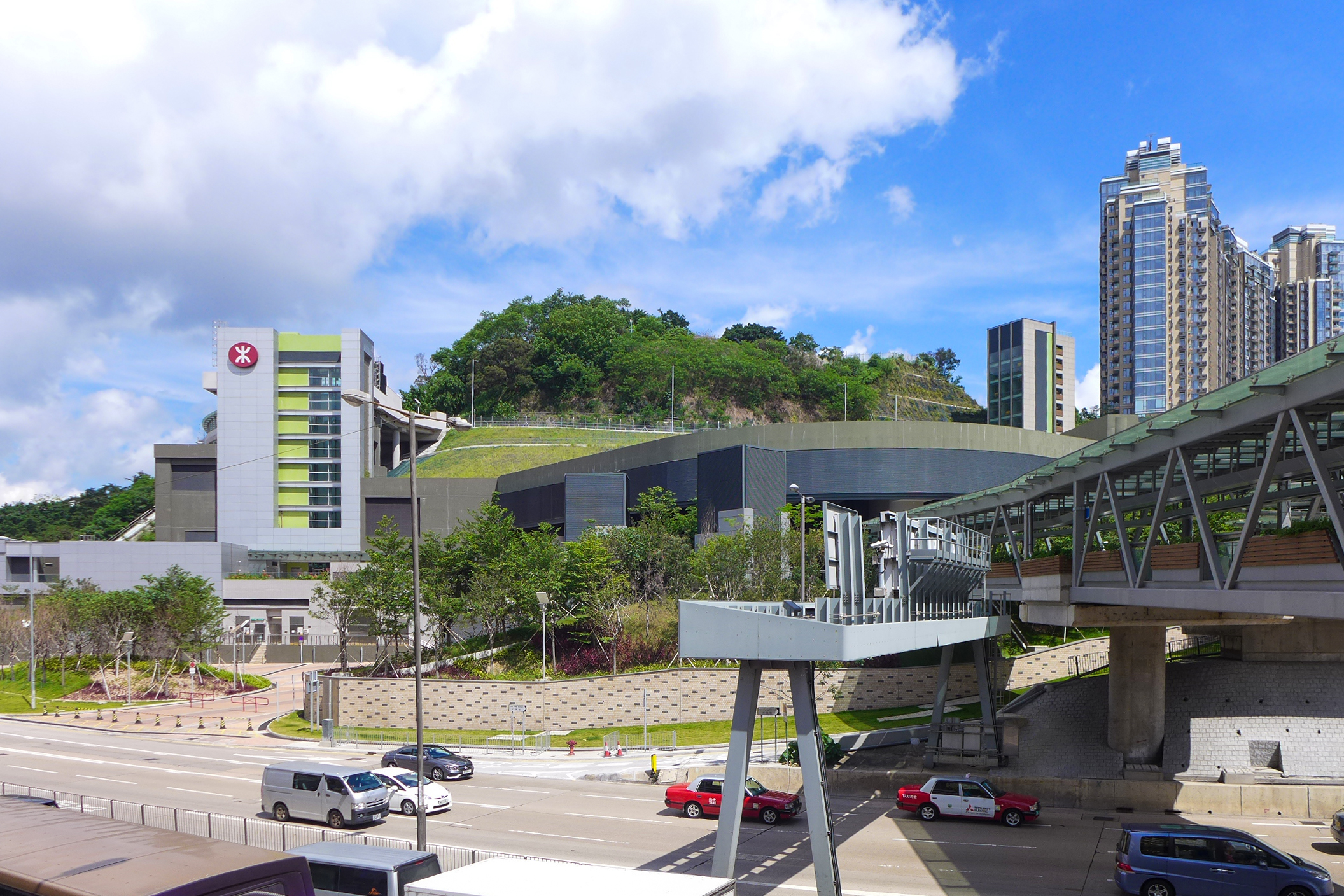 Ho Man Tin Station